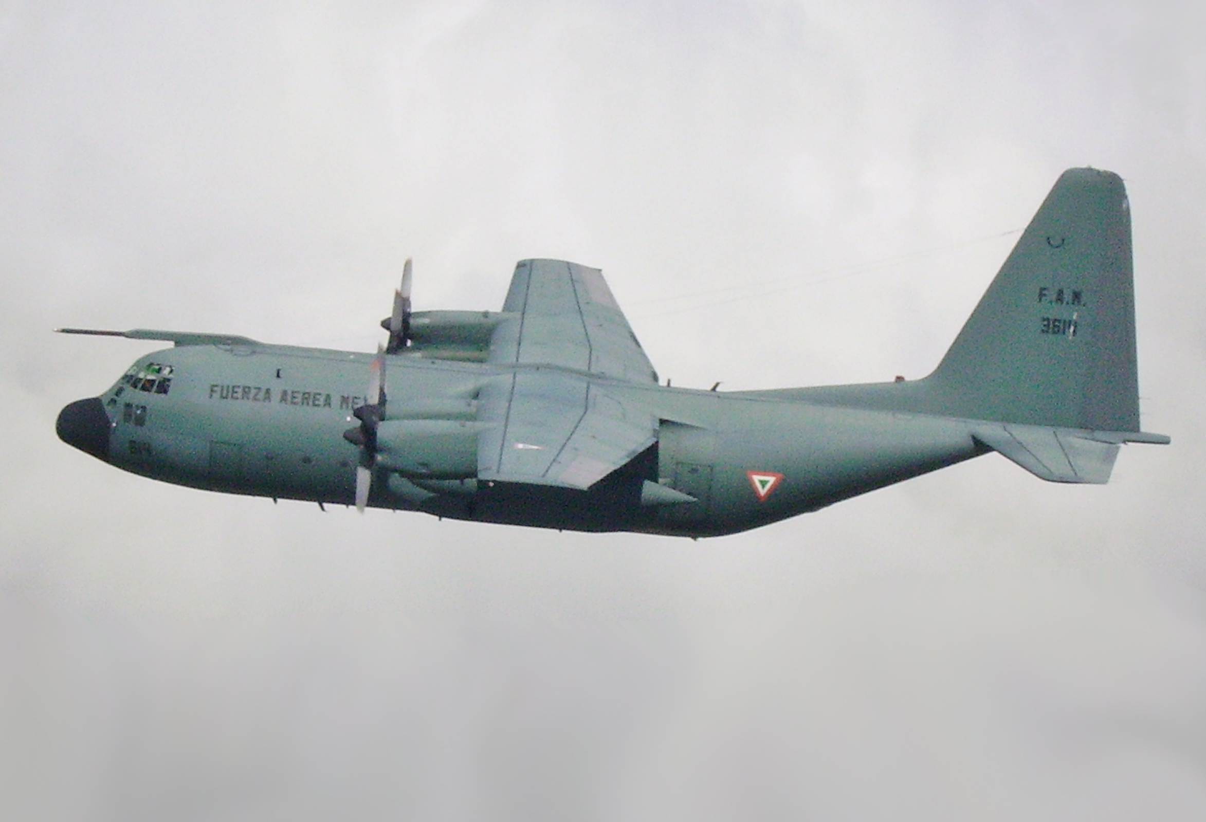 C-130 MK1 FAM 2